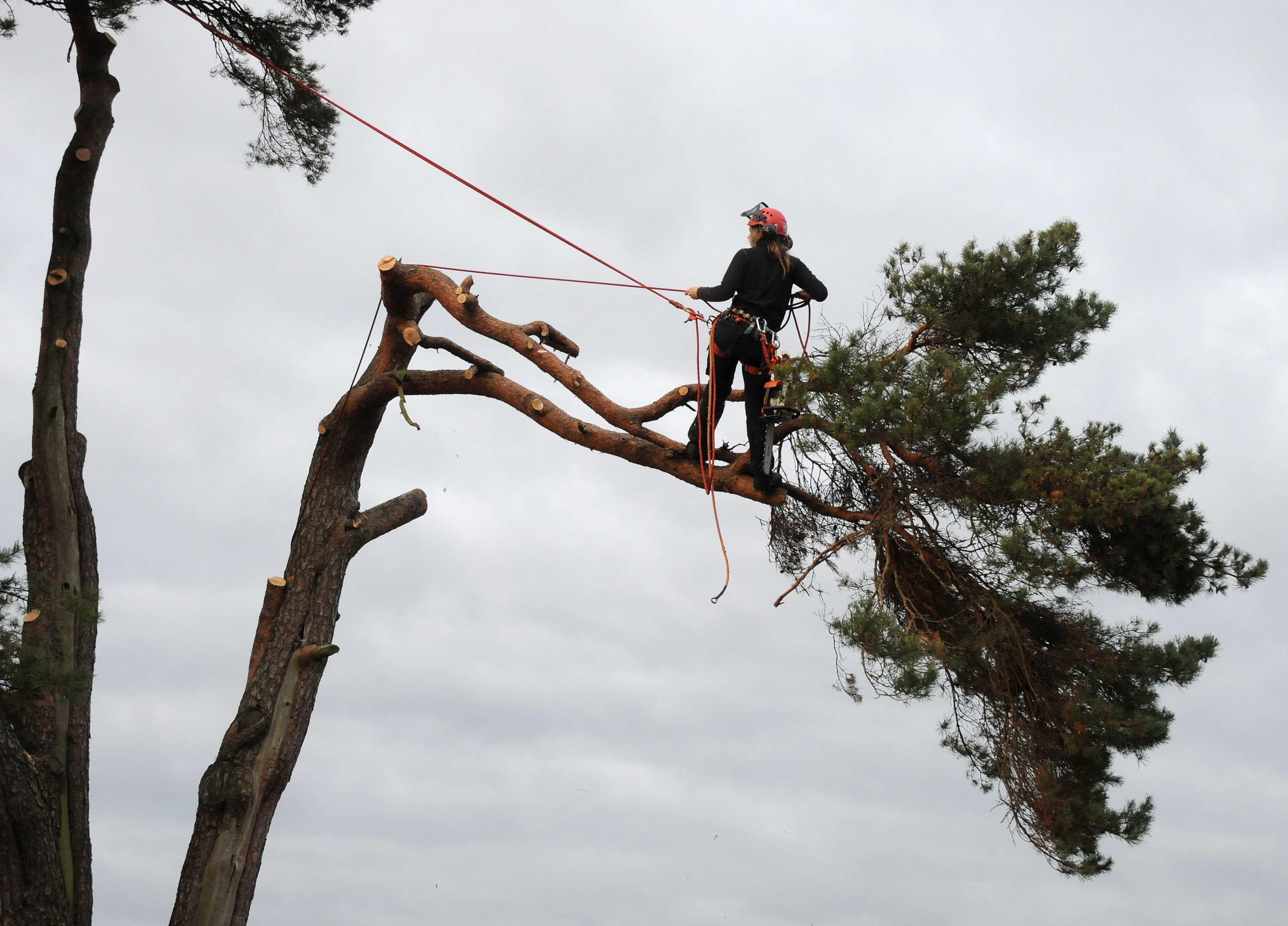 Arborist takes down a pine tree in residential area